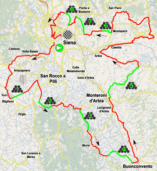 Map of the Strade Bianche 2018 (women). Note that the place of the start is not precise to avoid superposition with the arrival road.